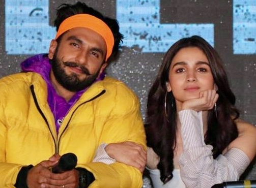 Ranveer Singh, Alia Bhatt and others grace the trailer launch of ‘Gully Boy’